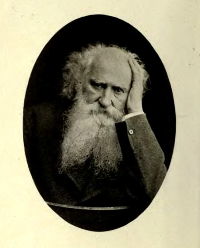 Heinrich Gaetke, German ornithologist